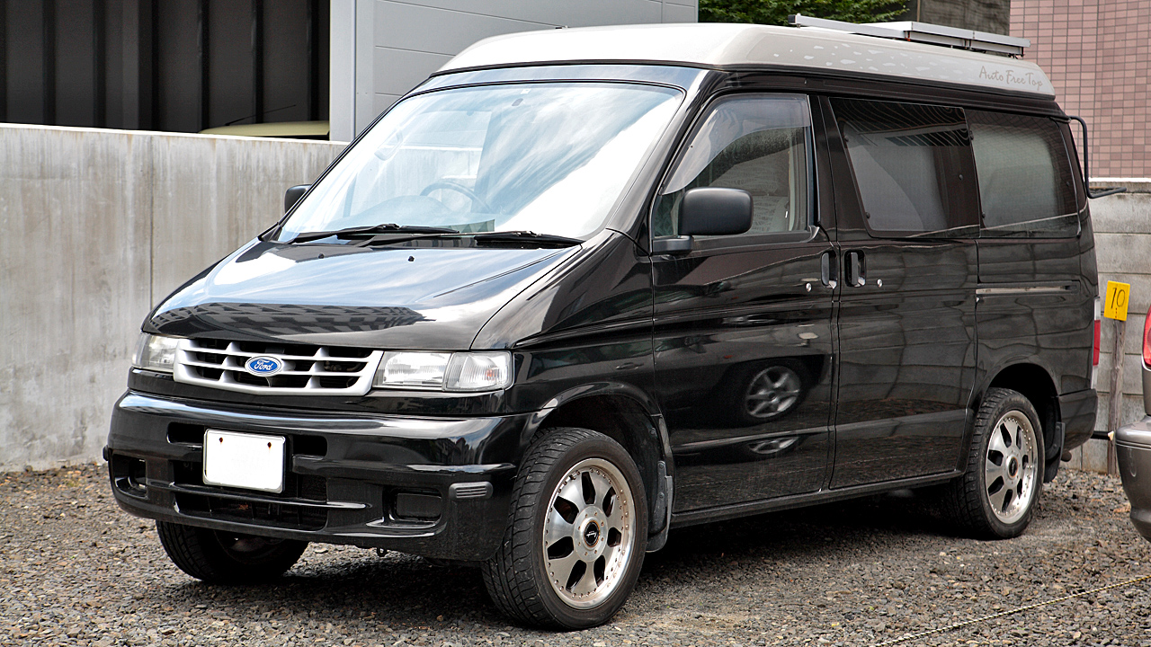 Ford Freda with Auto Free Top